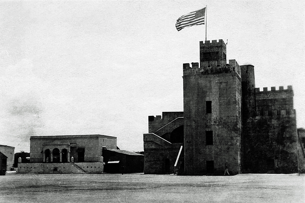 Restored black & white photograph of Fortaleza Santo Domingo (aka Fortaleza Ozama), circa 1922.